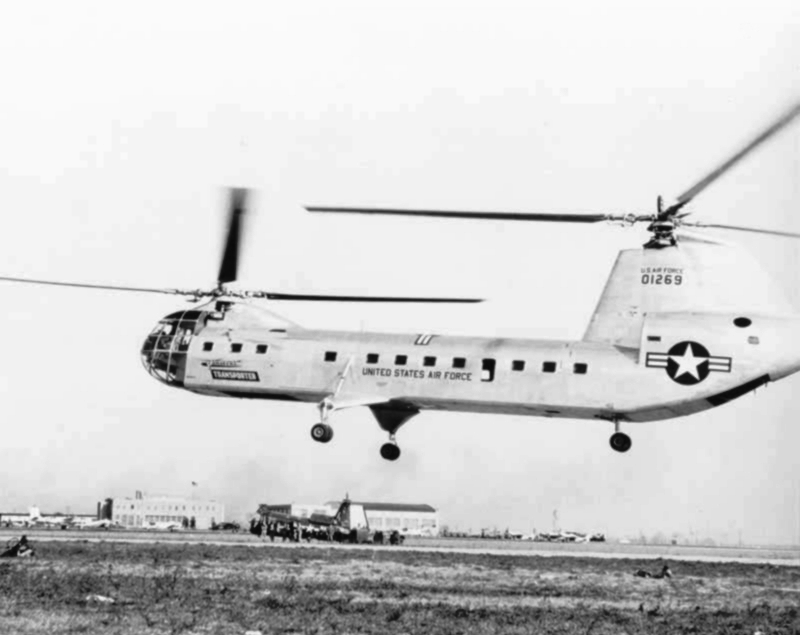 A Piasecki YH-16 helicopter.